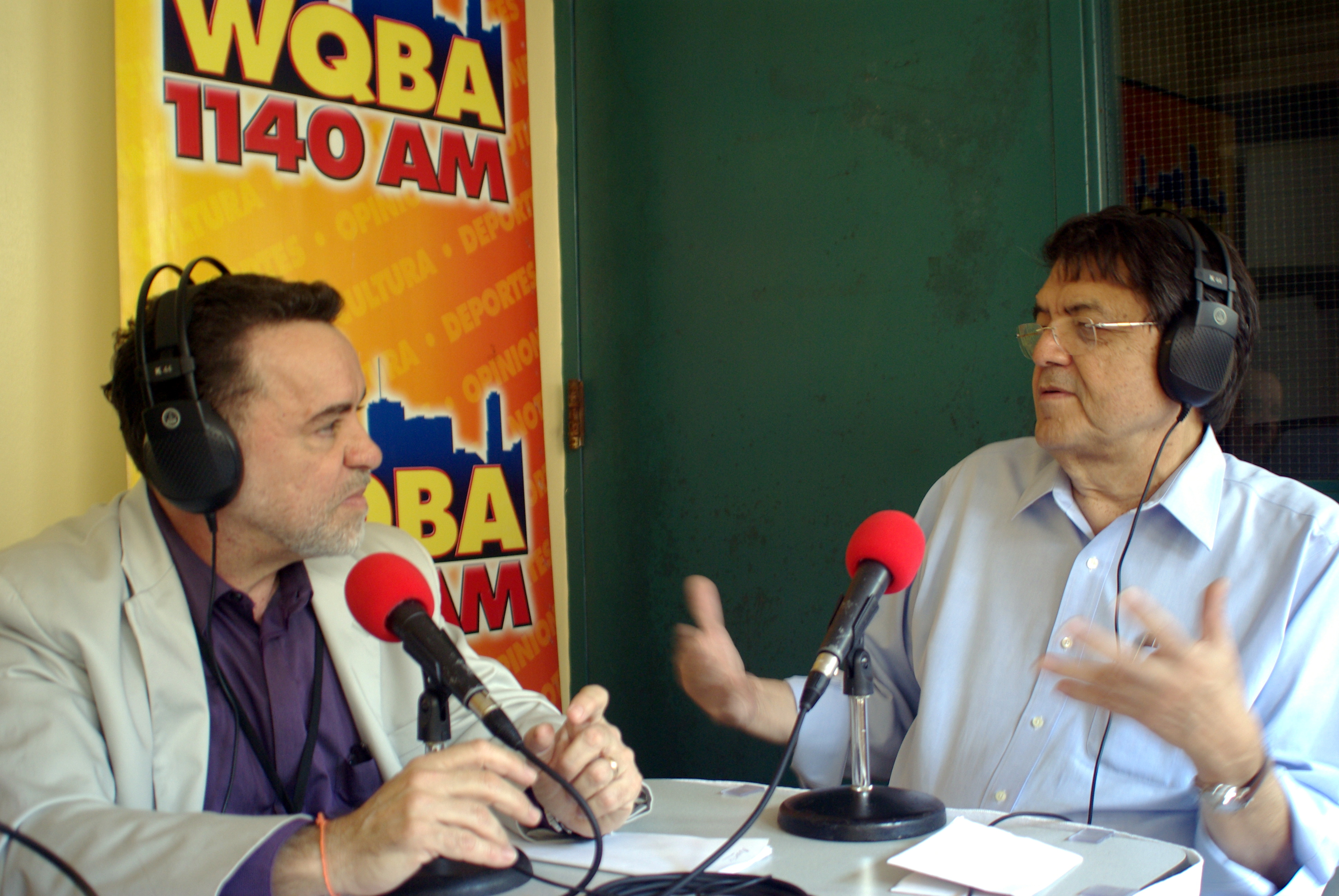 Nicaraguan writer Sergio Ramirez giving an interview to Cuban journalist Alejandro Rios during the Miami Book Fair International 2011